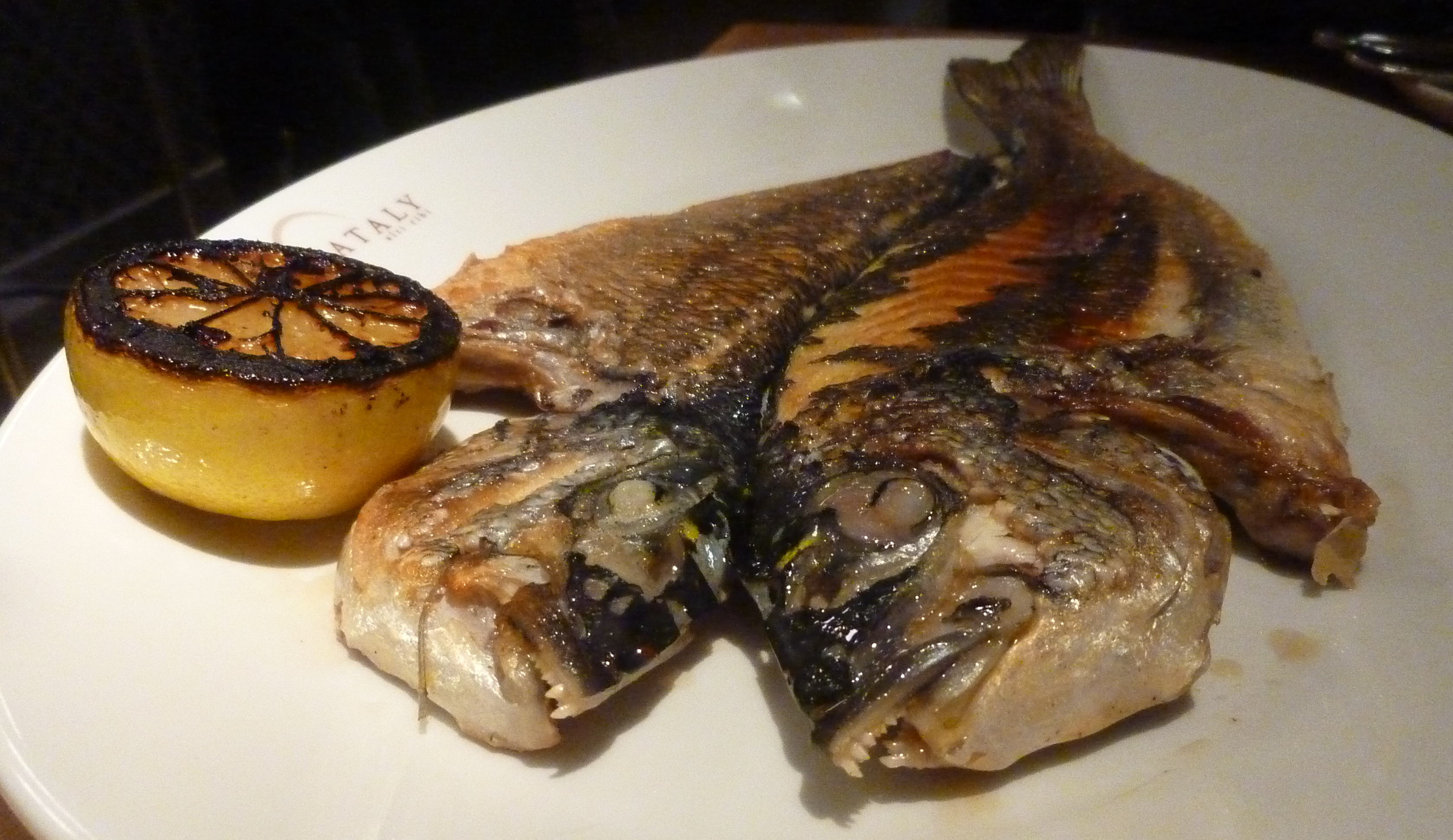 photo of orata filet at Eataly in New York City